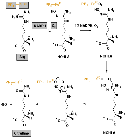 The reaction mechanism of Nitric oxide synthase